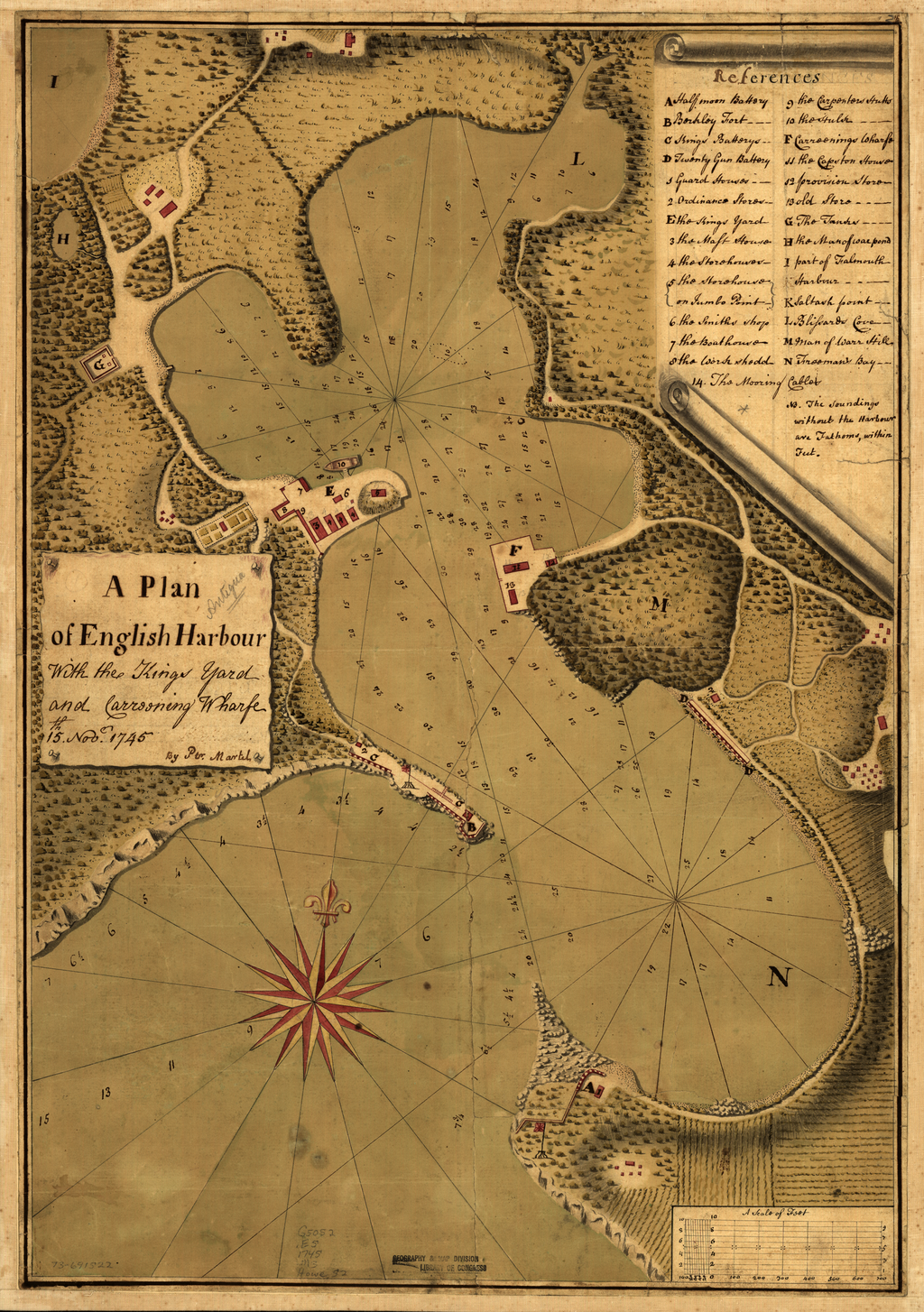 This well-executed, colored British map is of English Harbour, Antigua, one of the principal port facilities for British activities in the Caribbean in the18th century. The map shows the coastline, coastal features, extensive soundings, a navigational hazard, fortifications, shipyards, cultivated fields and vegetation, and an ornate wind rose. It also includes a keyed legend. The map indicates that the primary purpose of the port was as a naval depot and dry dock. The map is from the Howe Collection at the Library of Congress, which was acquired in 1905 from descendants of Admiral Lord Richard Howe (1726-99), who served as commander in chief of the British fleet in North America during the first two years of the American Revolutionary War. English Harbour (Antigua and Barbuda); Harbors